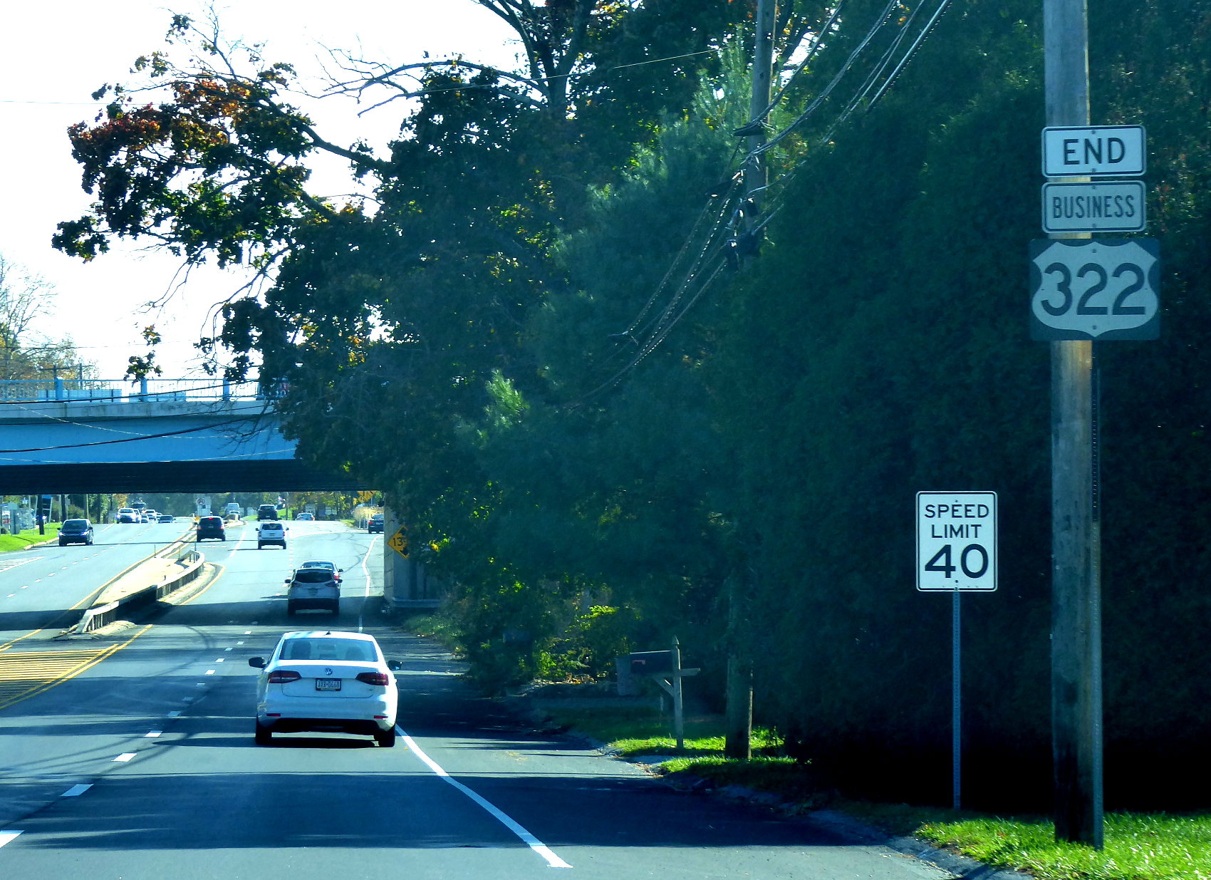 U.S. Route 322 Business (West Chester, Pennsylvania) eastern terminus from the west in West Goshen Township.